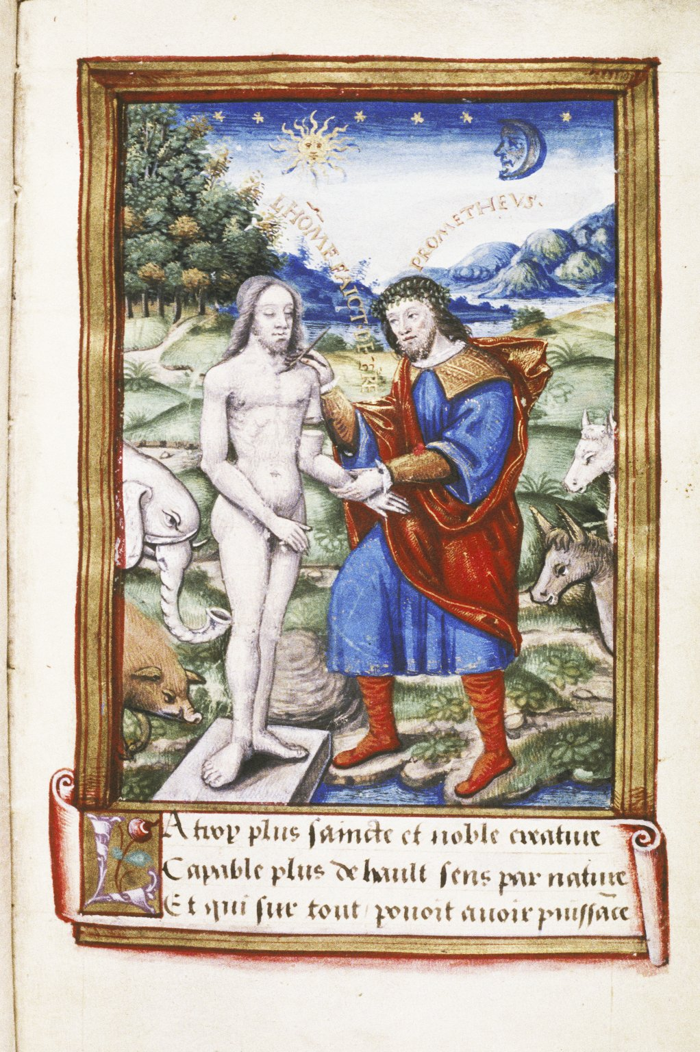 Prometheus constructs the first man. Ovid, Metamorphoses, Book I, French translation. Book illumination in Oxford, Bodleian Library, MS Douce 117, fol. 9r.